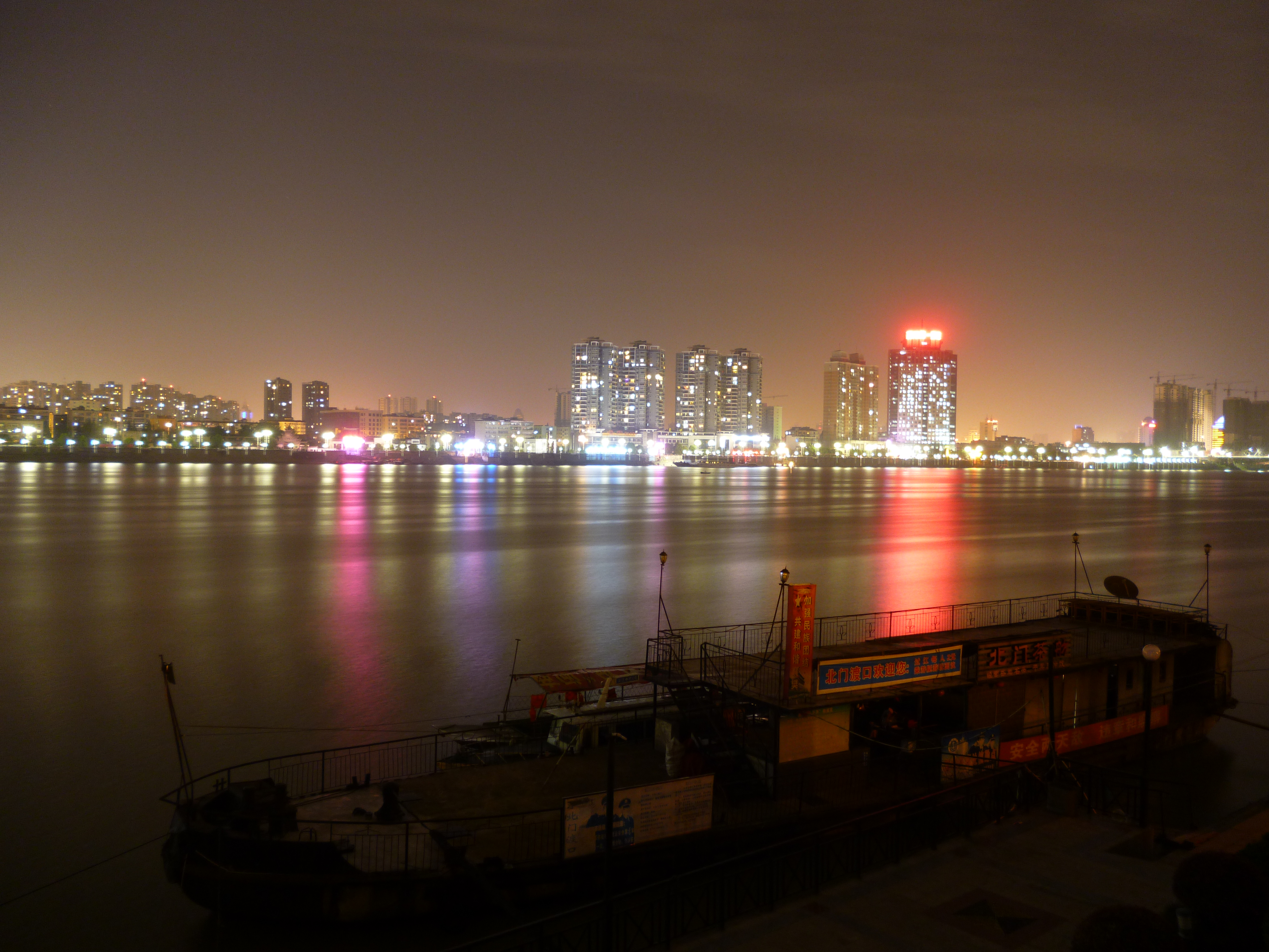 Overlooking Fancheng District from Xiangcheng District on the other side of the Han River, which is a branch of the Yangtze River.